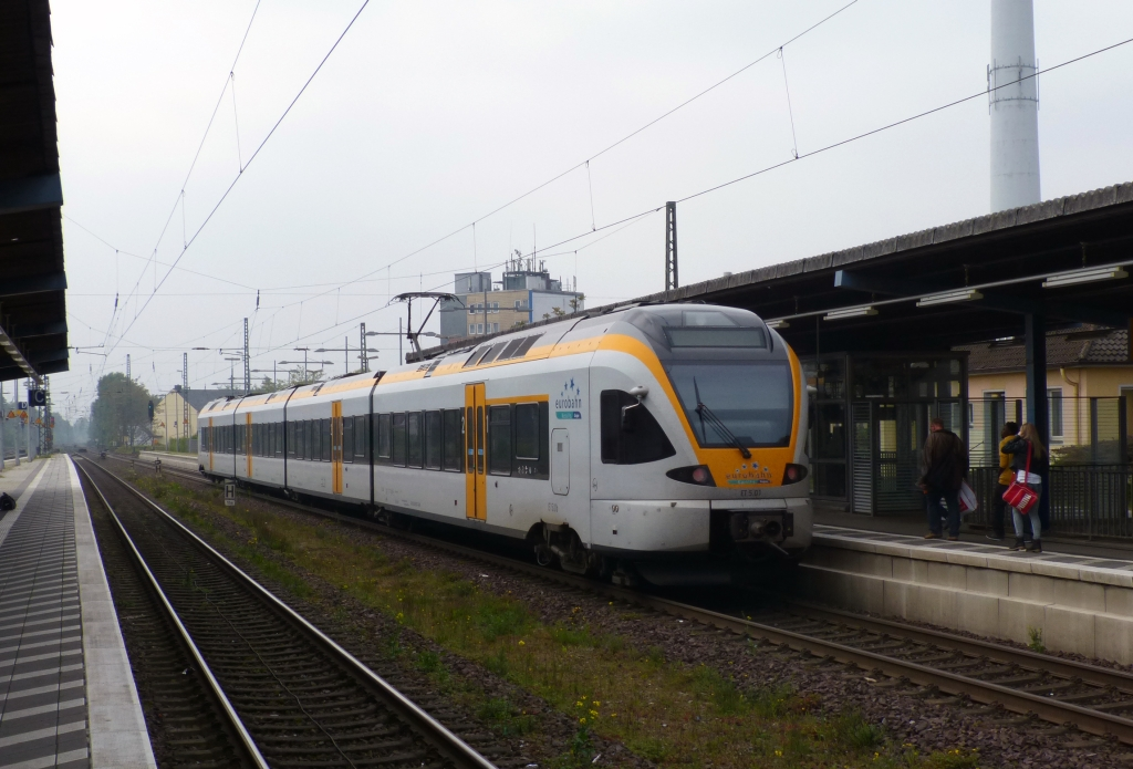 German EMU ET 5.01 of eurobahn (Keolis) as localtrain RB69 to Münster (Westphalia) at Gütersloh Mainstation